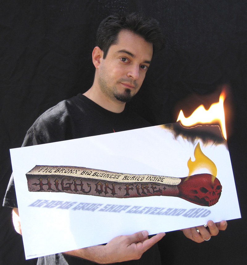 Emek holds his gig poster for "High On Fire" ©2006